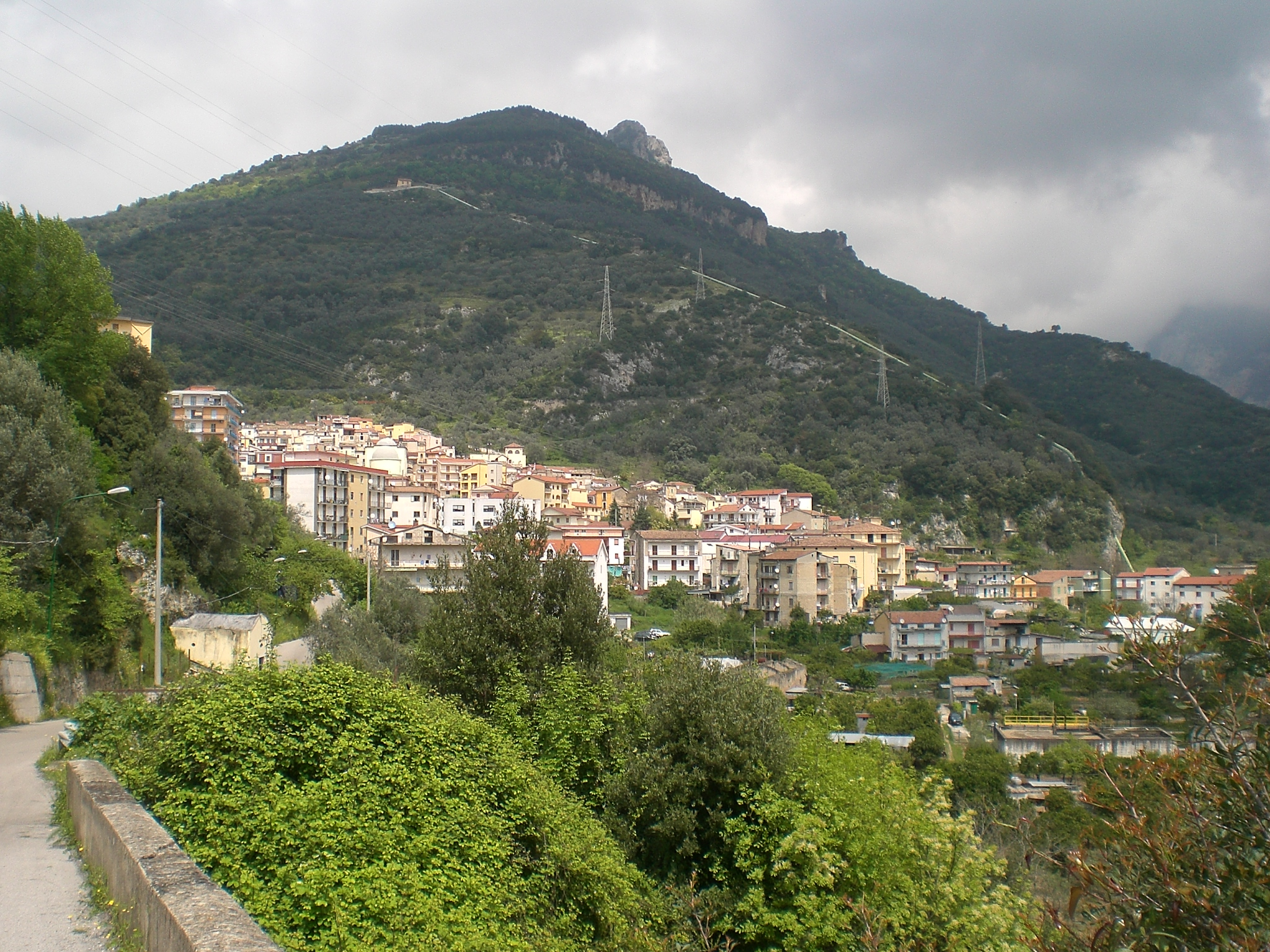 View of Ariano, hamlet of Olevano sul Tusciano